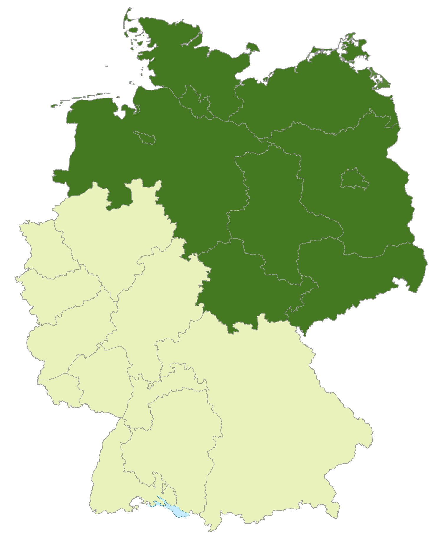 Germany's Regionalliga Nord, which includes football clubs from the states of Niedersachsen, Hamburg, Bremen, Schleswig-Holstein, Thüringen, Mecklenburg-Vorpommern, Sachsen-Anhalt, Berlin, Brandenburg and Sachsen